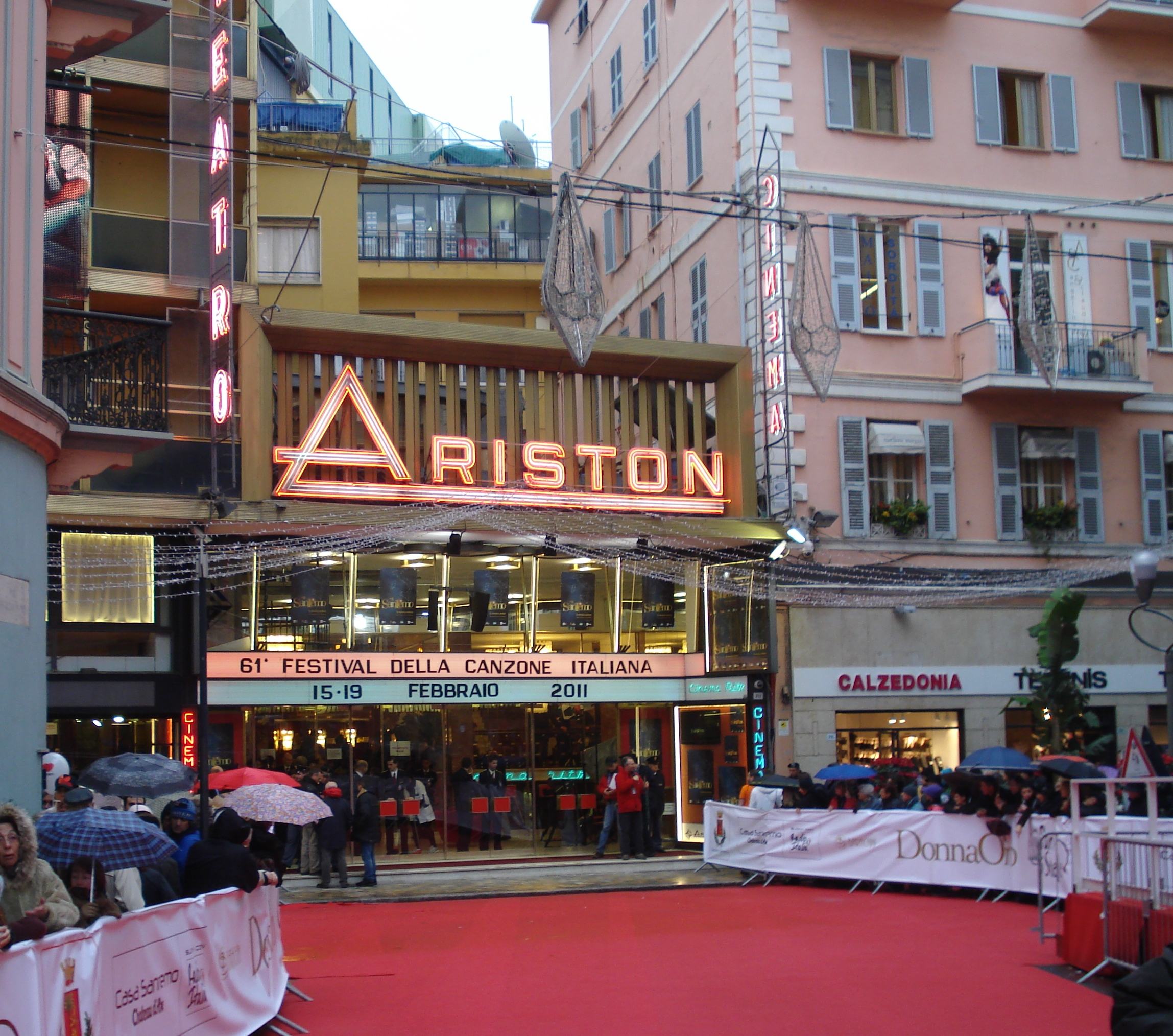 Sanremo